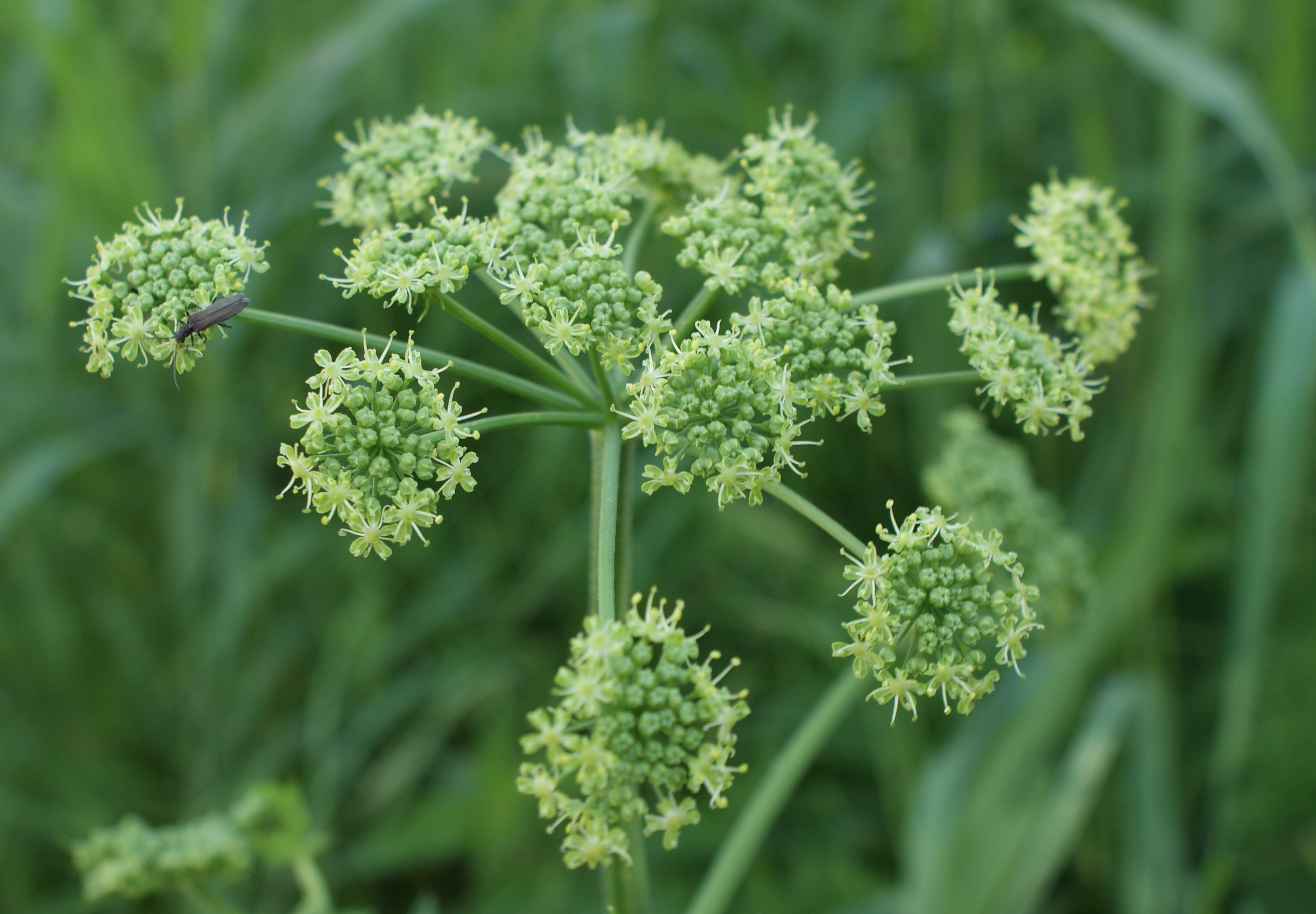 Heracleum sibiricum, inflorescence